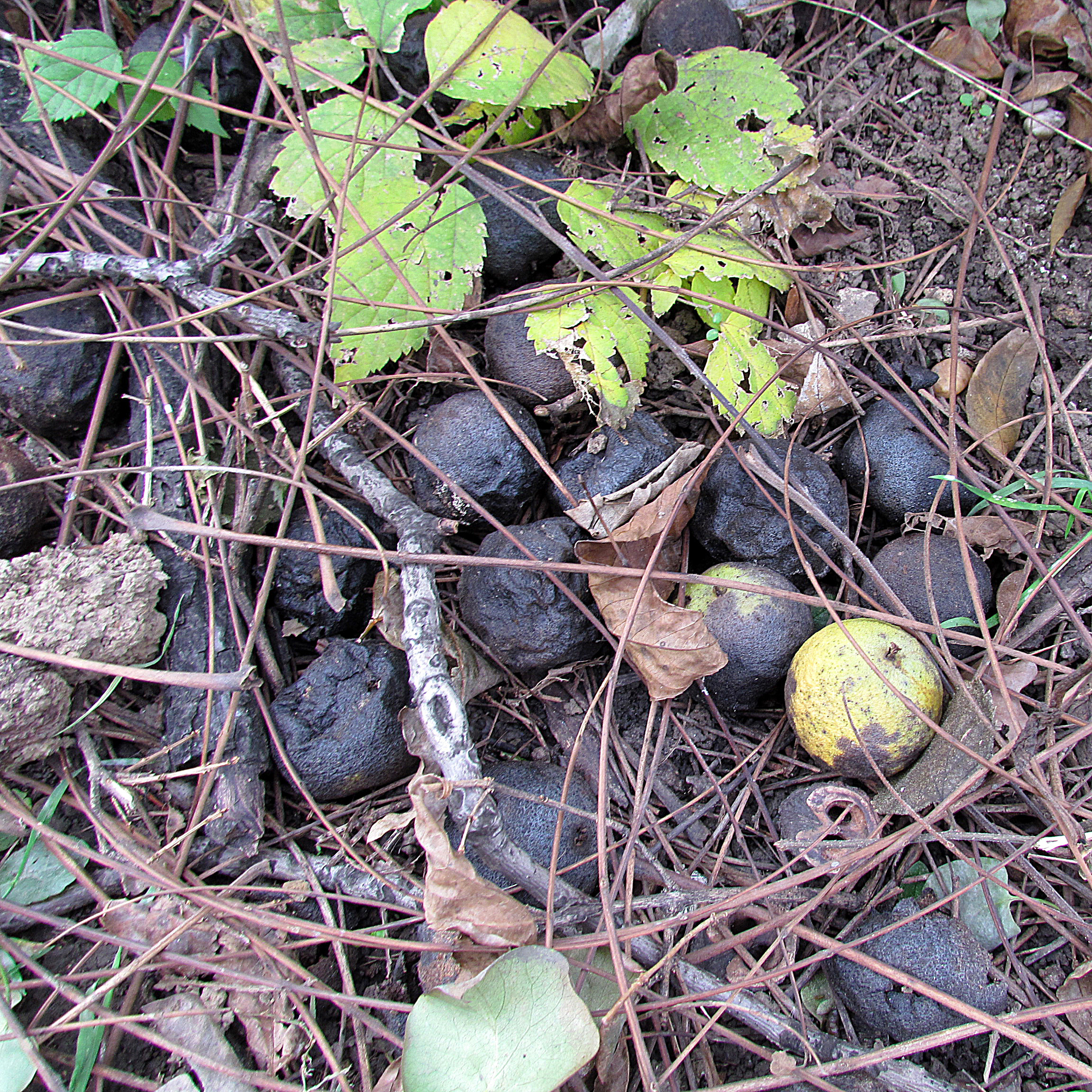 Fallen fruits of Juglans nigra